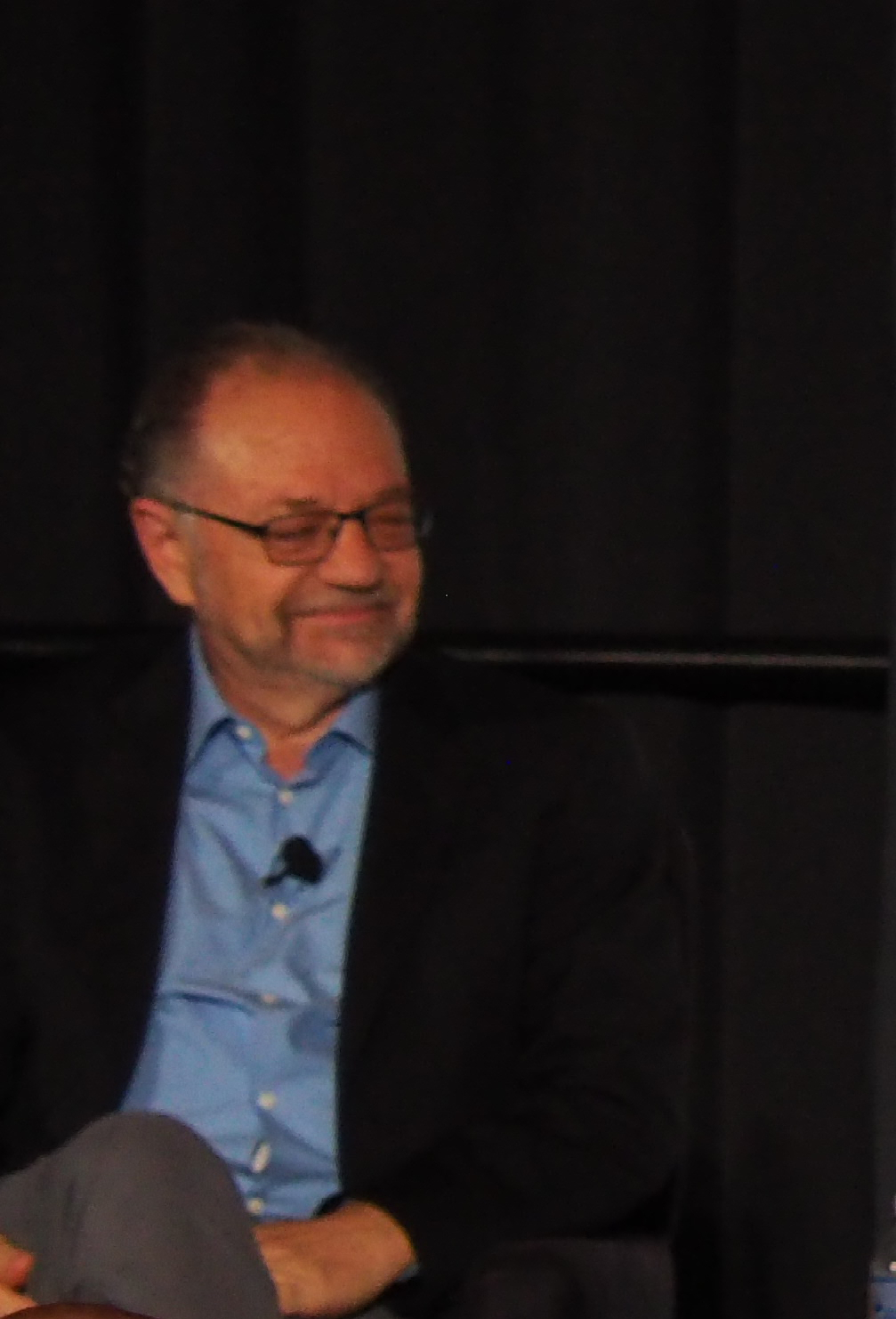 Jonathan D. Moreno